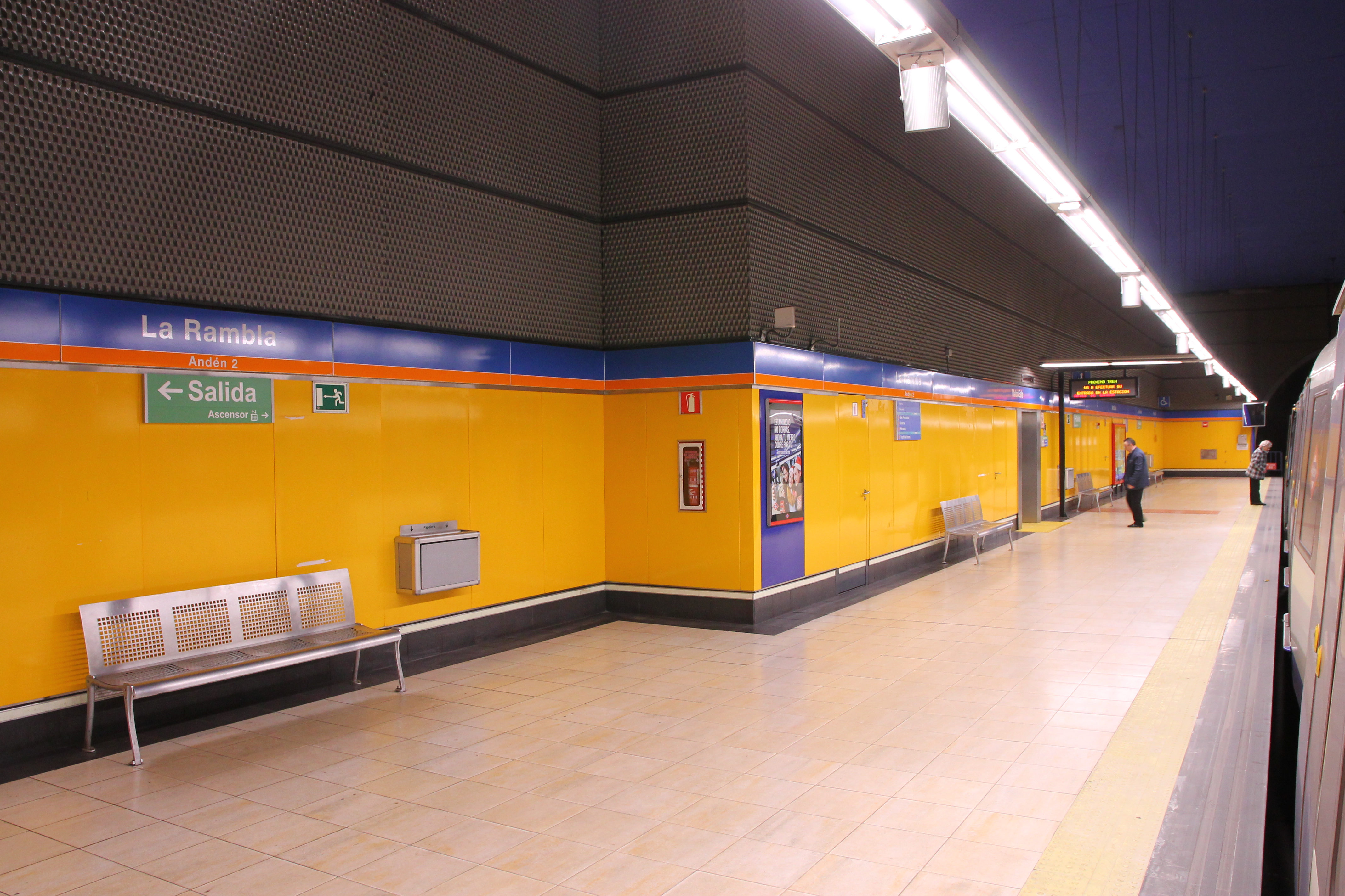 Estación de La Rambla